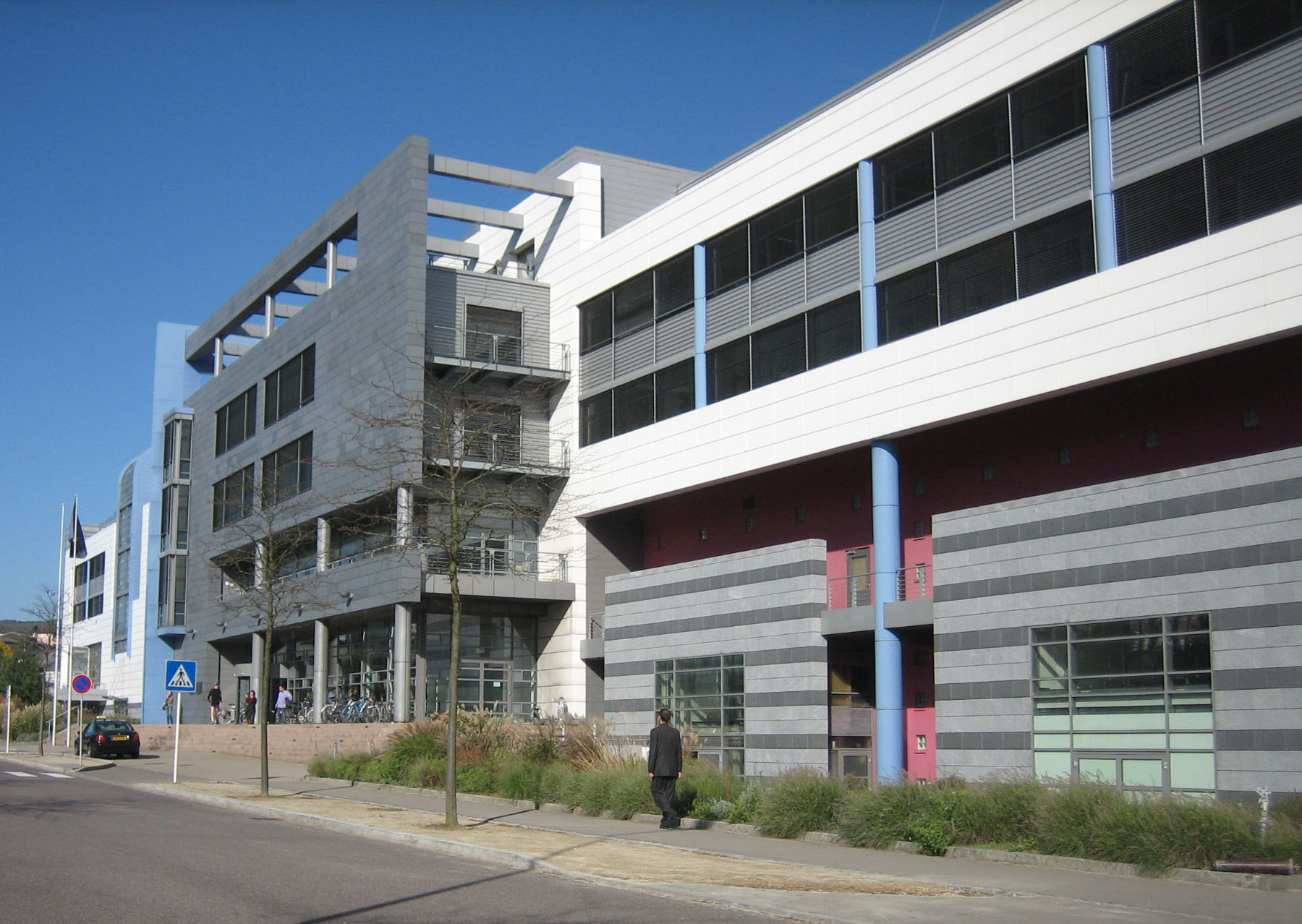 Rue Alphonse Weicker entrance to the Joseph Bech building, within the Kirchberg District Centre in Kirchberg, Luxembourg City, Luxembourg. Headquarters of the European Union's statisical office, Eurostat, since 1998.